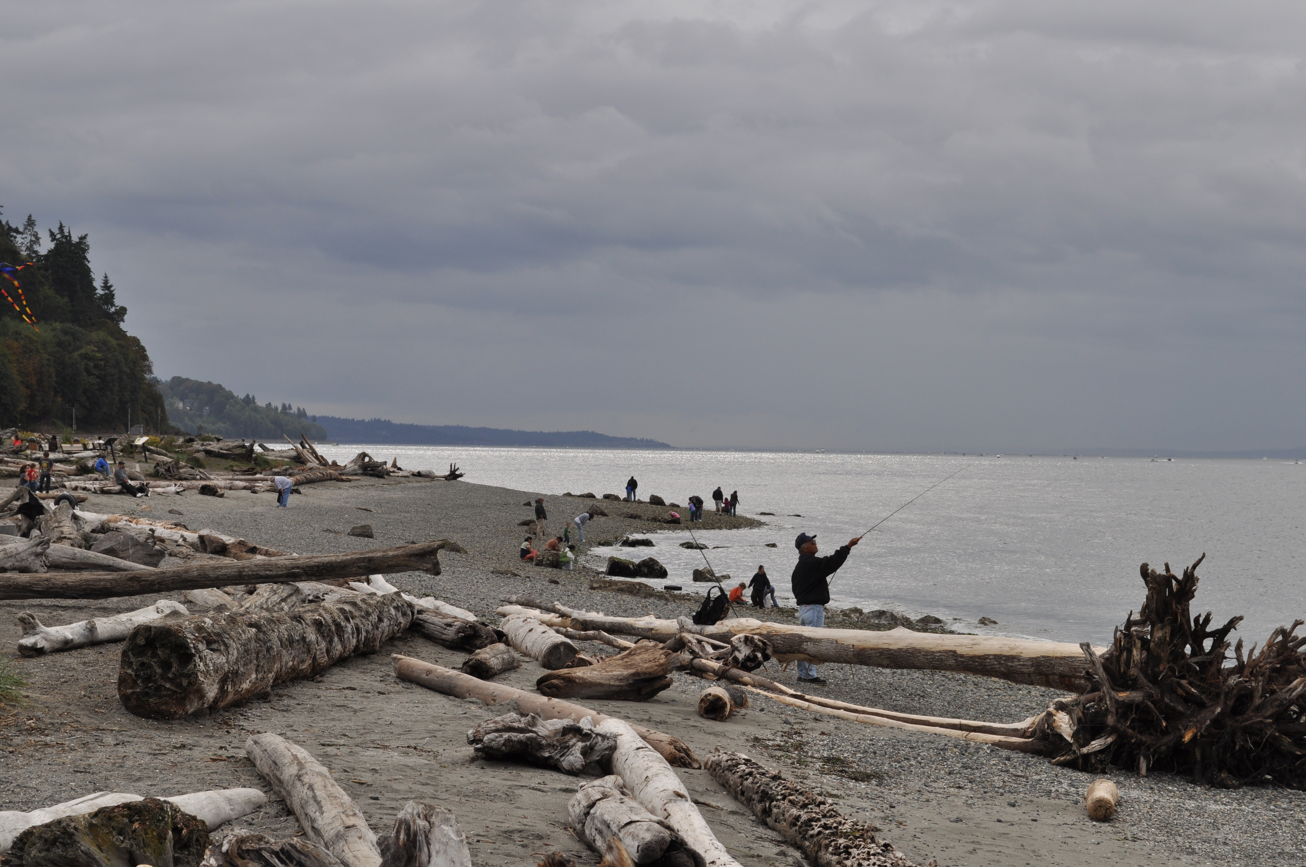 Lighthouse Park, Mukilteo, Washington.